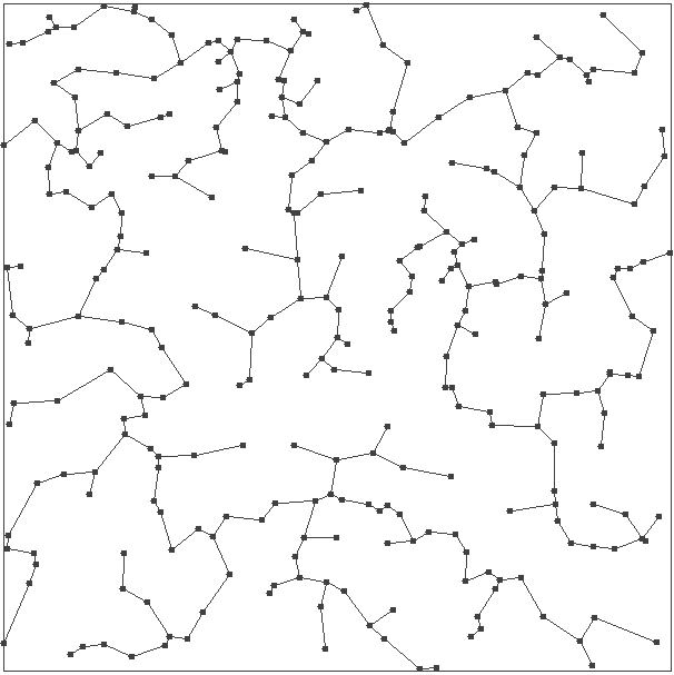 Reduced topology by applying MST